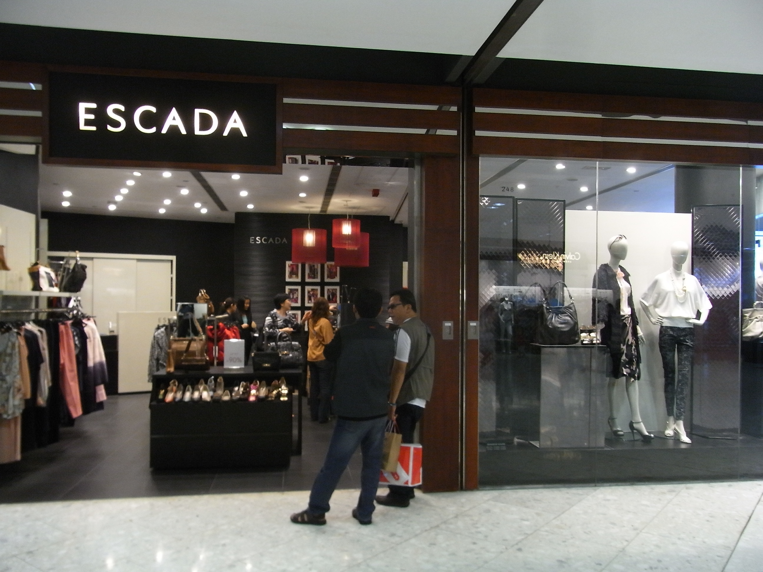 Shop in CityGate Outlets, Tung Chung, Lantau Island, Islands District, Hong Kong